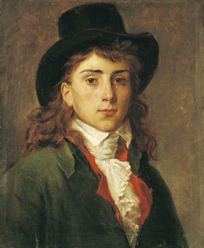 Portrait of French painter Antoine-Jean Gros (1771–1835) at the age of 20 years